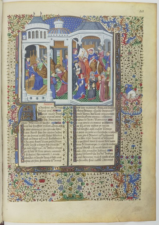 Arrival of melancholy at the house of Alain Chartier. Illuminated manuscript page in Chartier's Book of Hope.